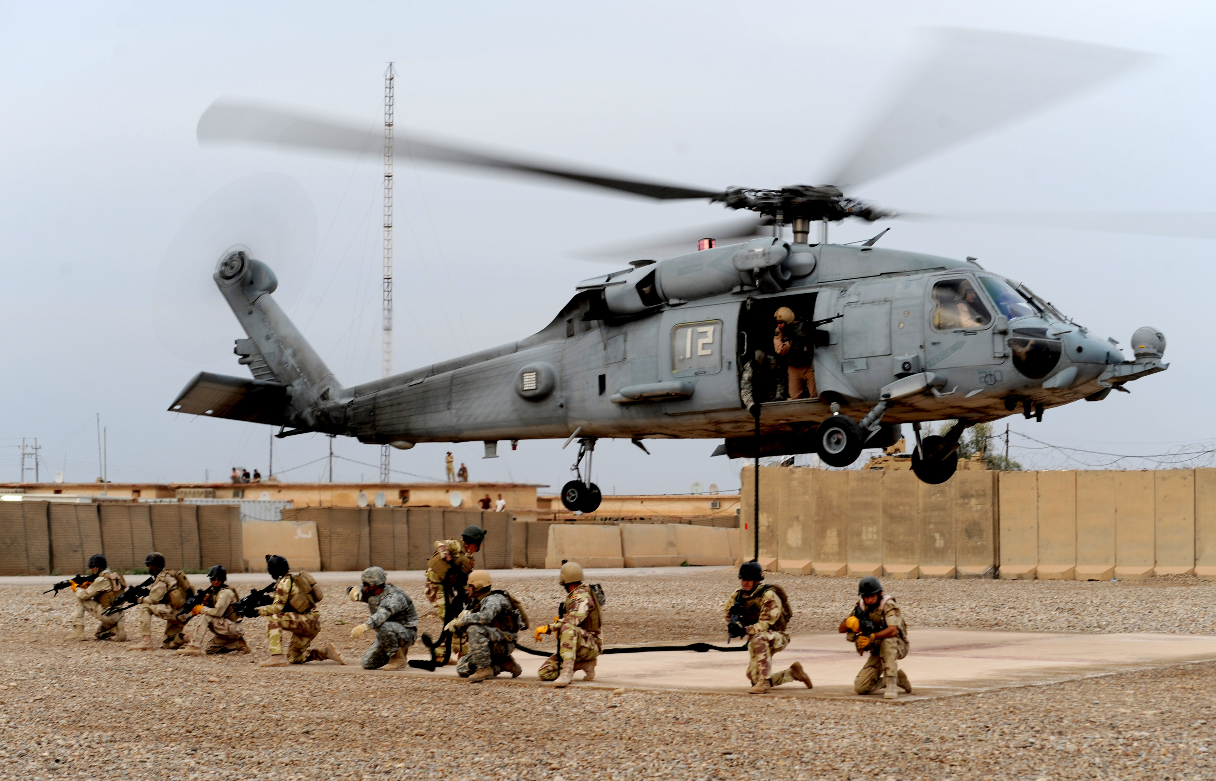 BAQUBA, Iraq (April 27, 2010) Iraqi Special Operations Forces (ISOF) soldiers set a perimeter after fast-roping insertion training. Members of U.S. Special Forces and crews onboard two Navy HH-60H Sea Hawk helicopters from Helicopter Sea Combat Squadron (HSC) 84 provided fast-rope insertion training to members of the Iraqi Special Operations Forces (ISOF) at Forward Operating Base Gabe. (U.S. Navy photo by Chief Mass Communication Specialist David Rush/Released)